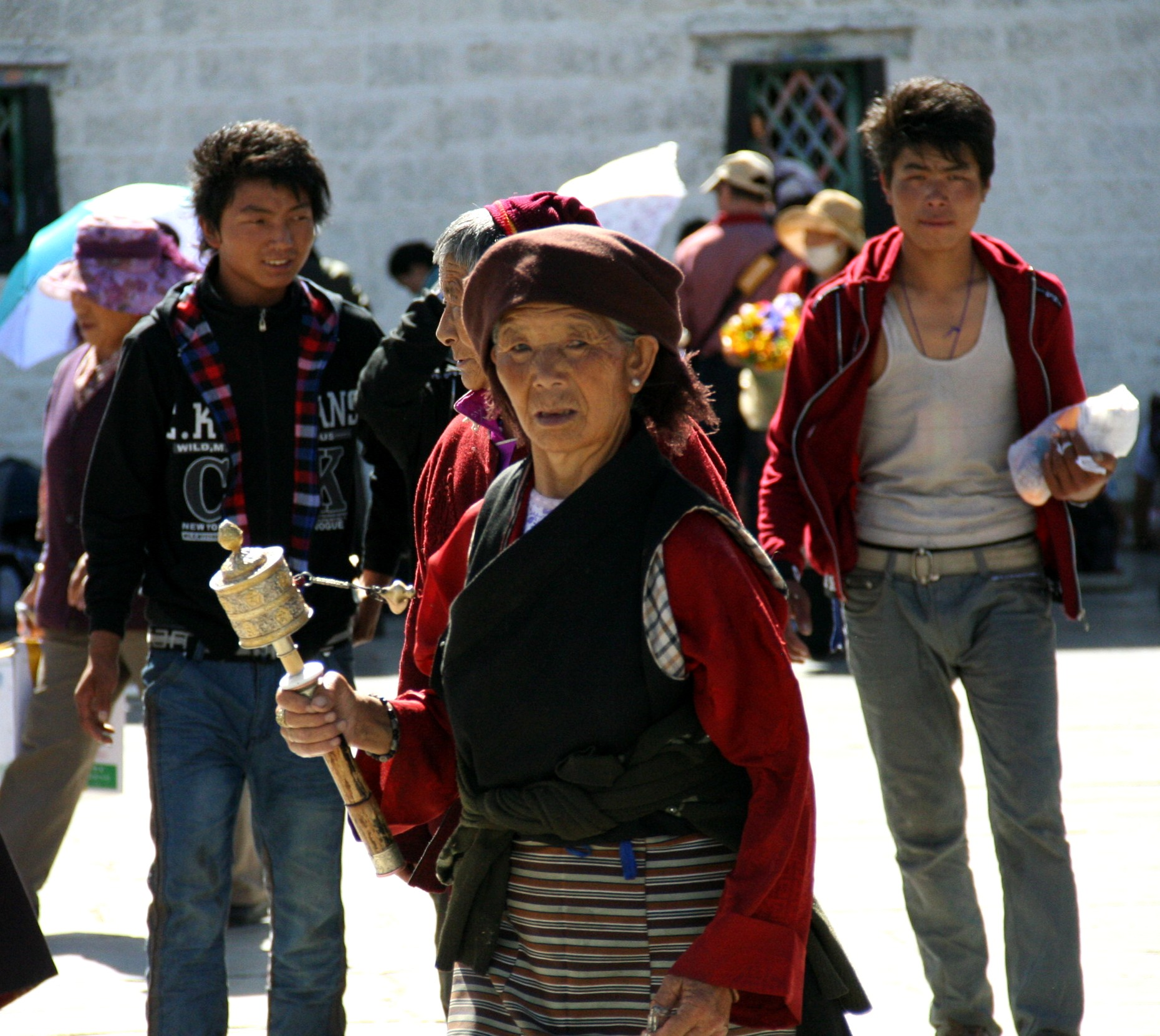 Tibetan woman praying in Lhasa streets